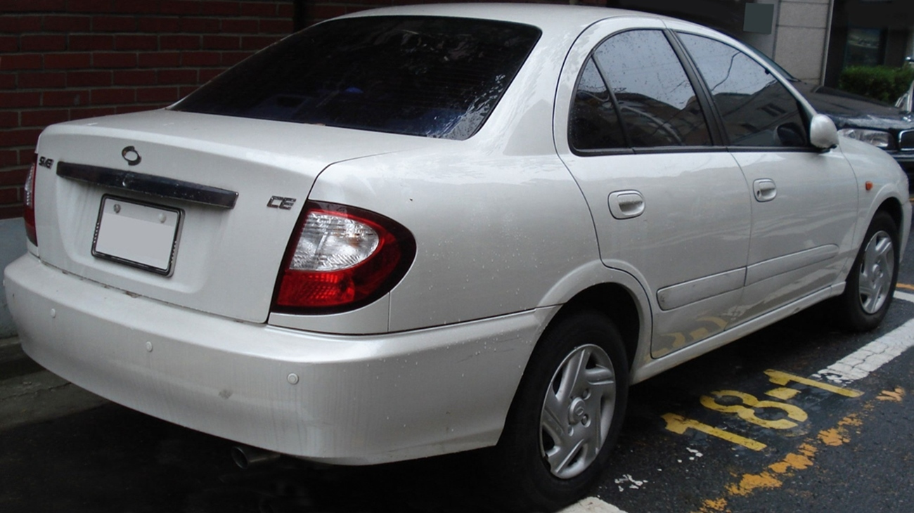 Renault Samsung SM3